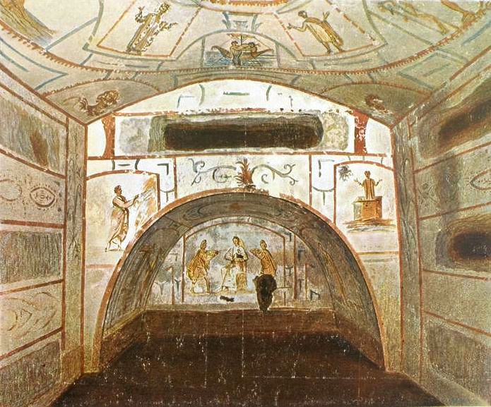 Catacombs of Saints Marcellinus and Peter (Book plate of photo by Wilpert, Joseph. Die Malereien der Katakomben Roms, 1903). Scenes, from top:Orants, Jonah and the Whale, Moses striking the rock (left), Noah praying in the ark, Adoration of the Magi